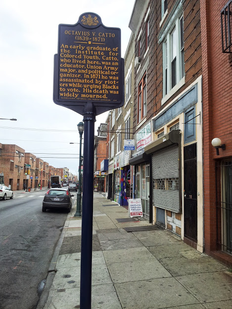 Pennsylvania historic marker at 812 South Street, Philadelphia, honoring Octavio Cato who lived in Philadelphia at this address.